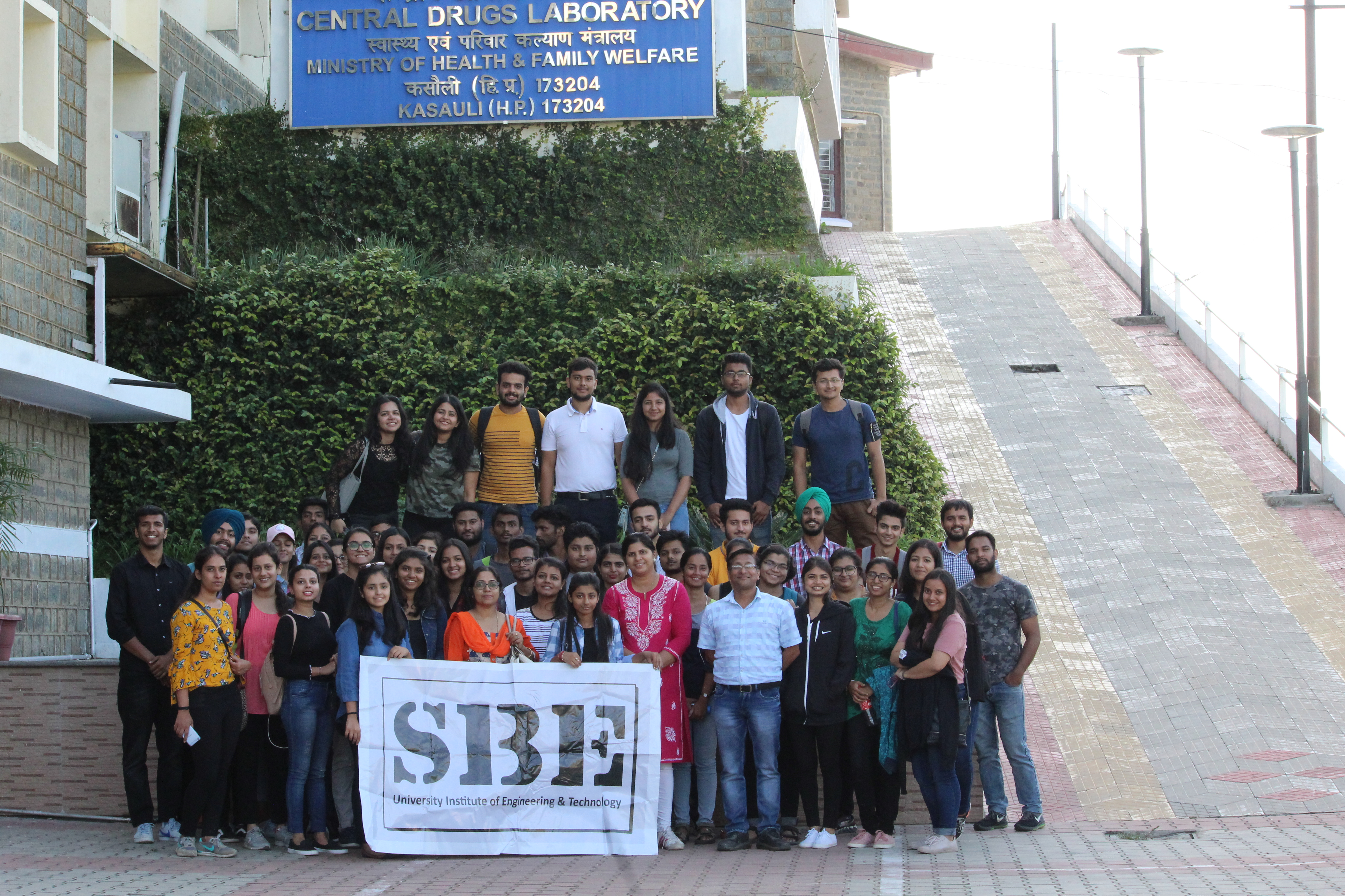 This is a group photo of UIET's students and teachers with the director of Central Drug Laboratory.